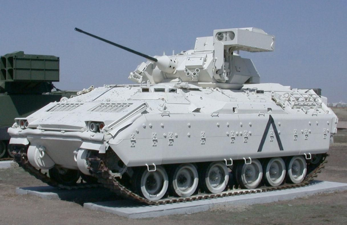 Image title: Bradley infantry combat vehicle with tow antitank missile launcher Image from Public domain images website